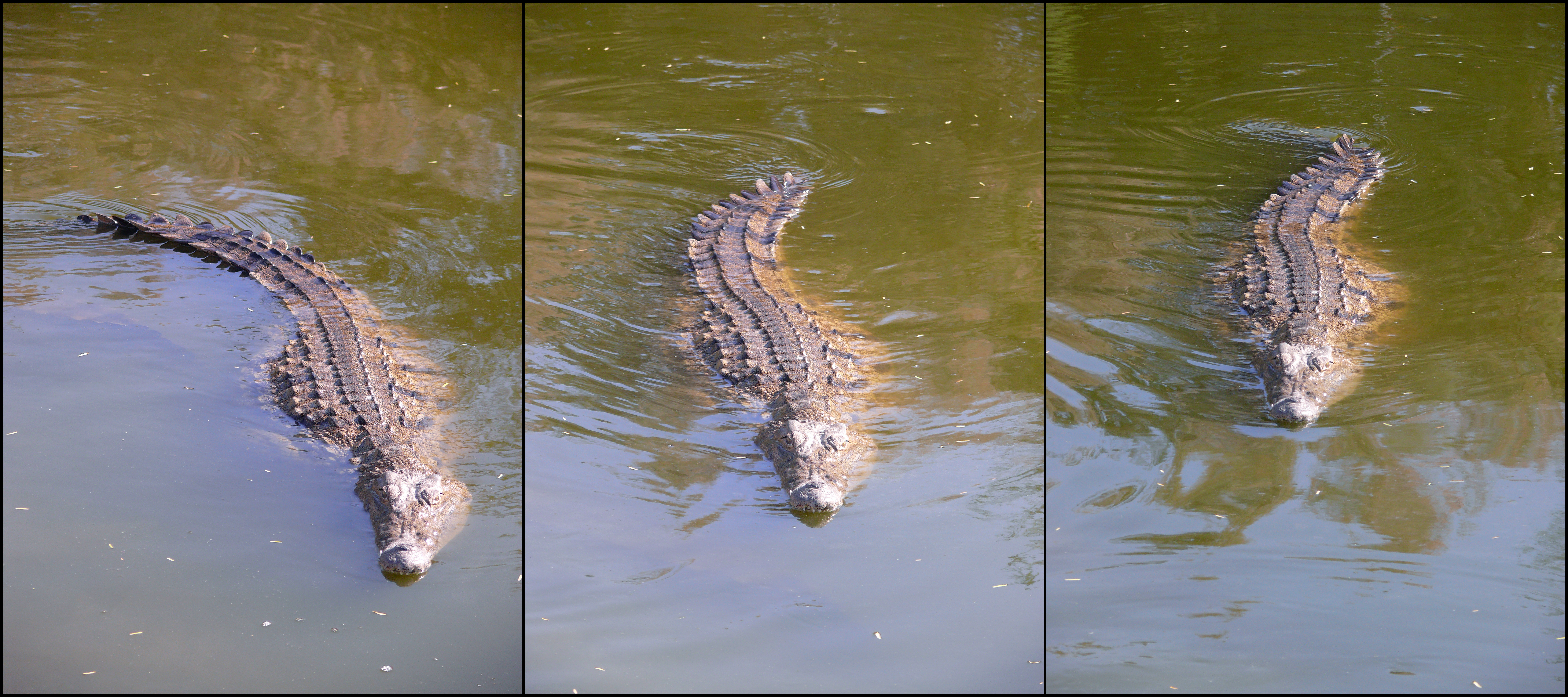 Nile Crocodile (Crocodylus niloticus) swimming in CrocoLoco Farm, Israel